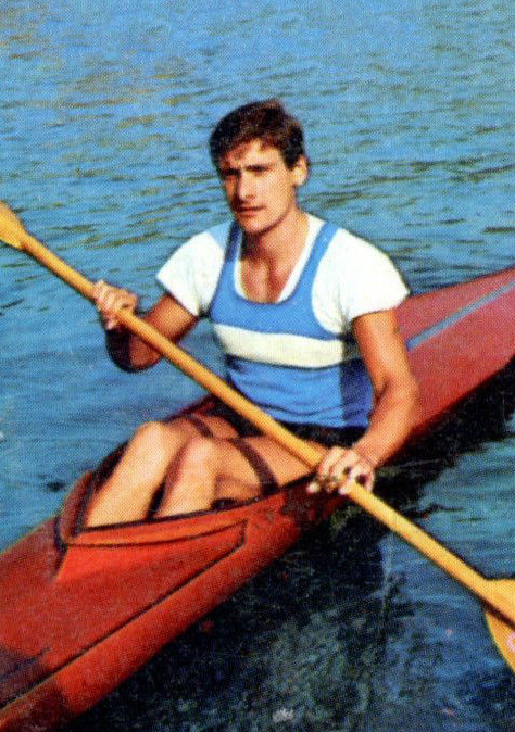 CAMPIONI DELLO SPORT 1969/70-n. 175 - BELTRAMI (ITA) -CANOA